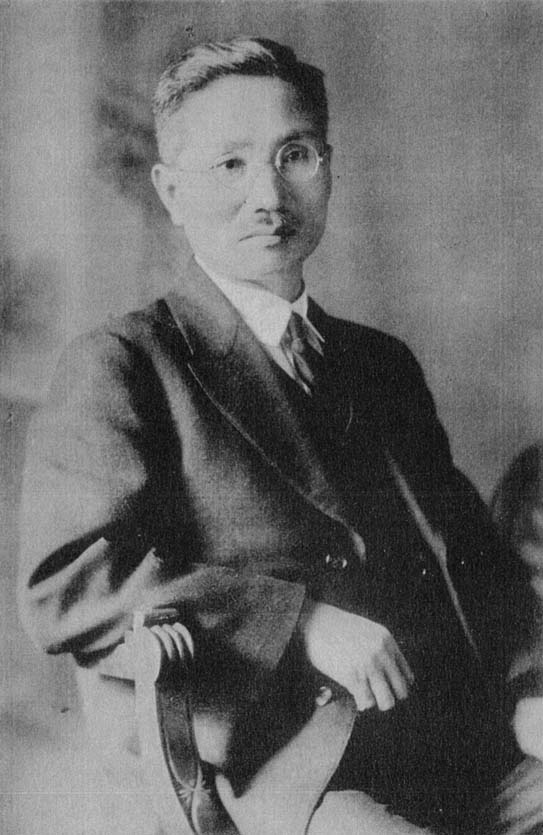 Dr. Kenjirō Fujii (taken in 1928).